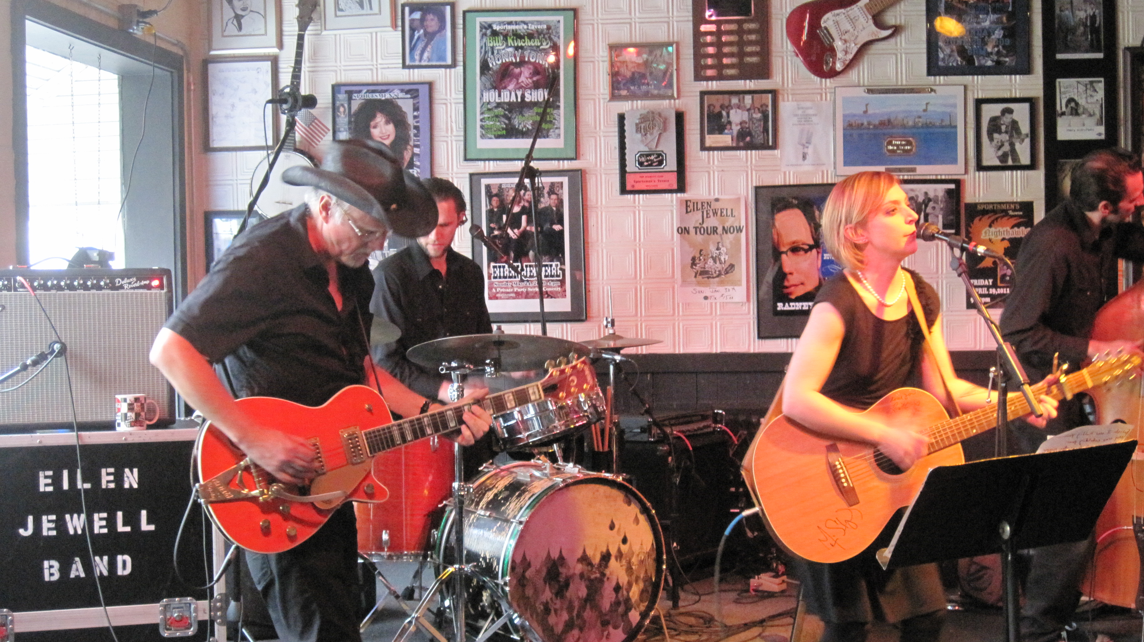 Eilen Jewell at the Sportmen's Tavern, Buffalo, NY